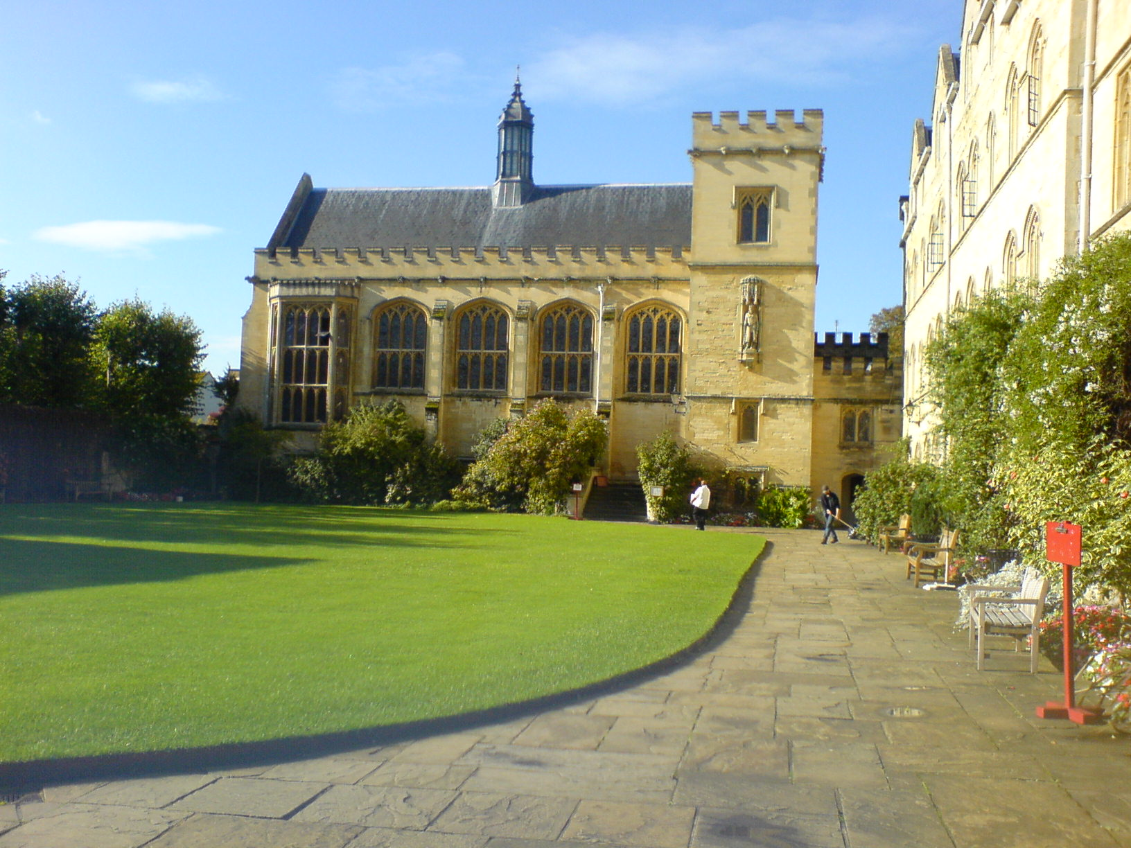 Pembroke College Hall and Chapel Quad.